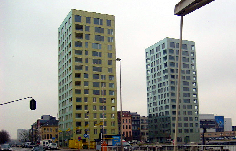 Het Eilandje, Antwerp, Belgium